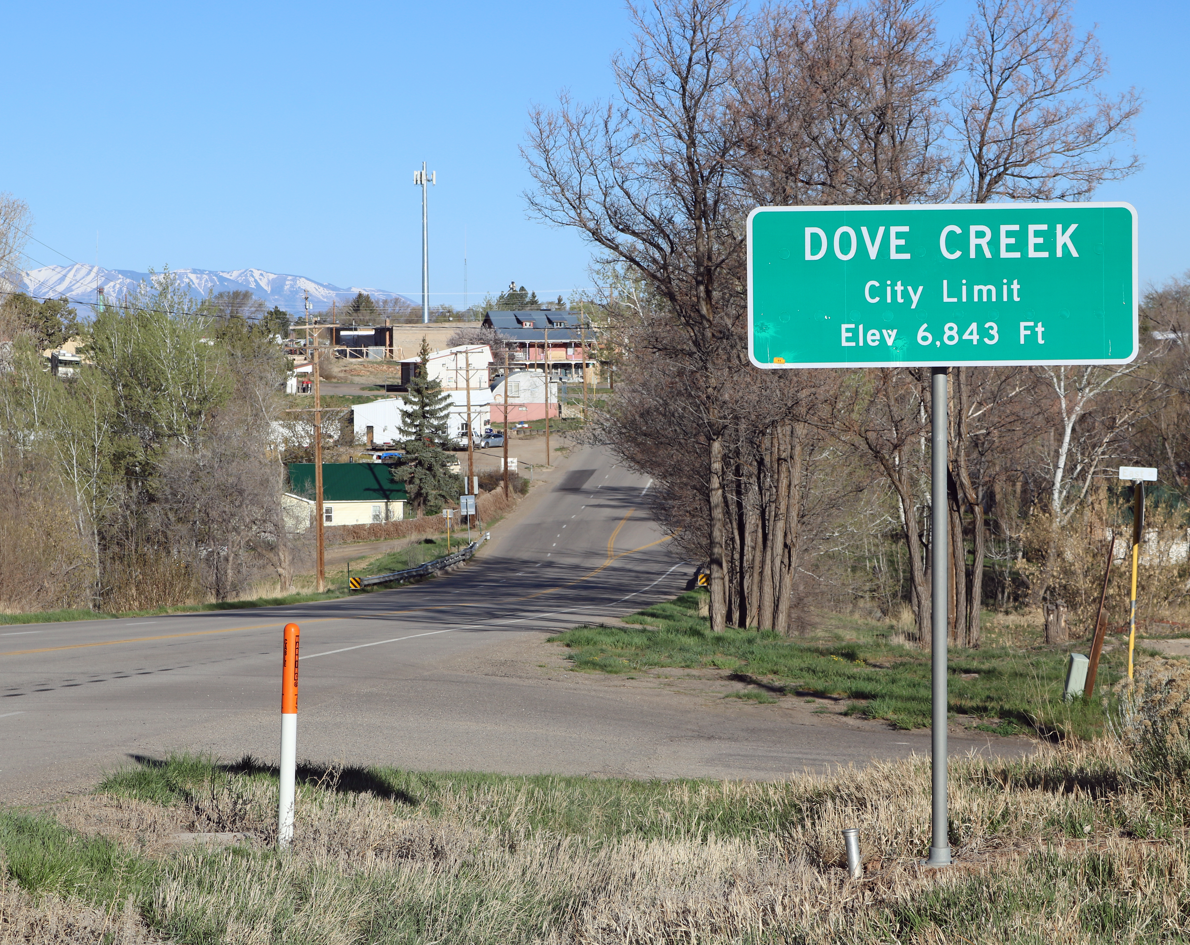 One of the city limits signs for Dove Creek, Colorado. The sign is on the the east side of town, along Main Street (Highway 491), at East Street.